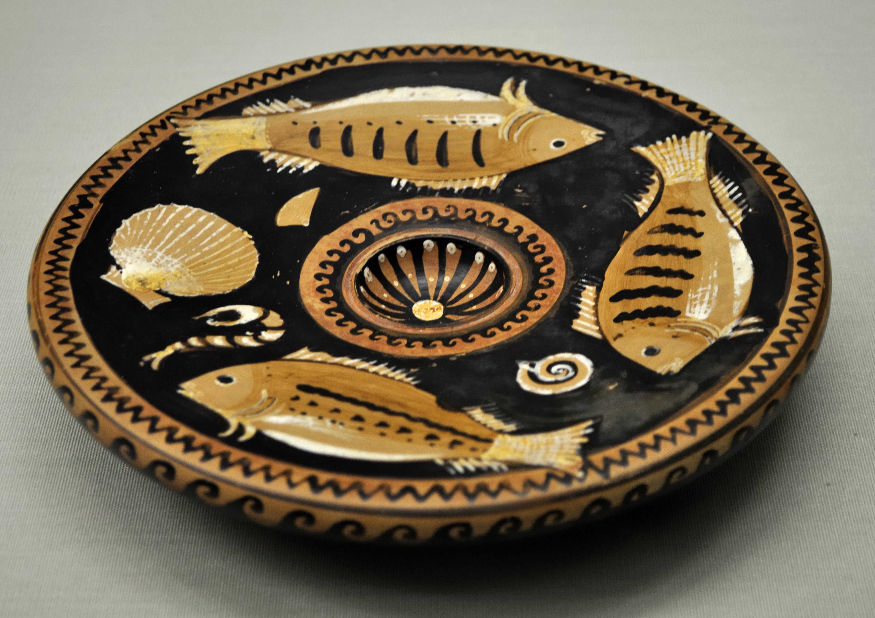 Picture taken in Hetjens-Museum Düsseldorf before Duisburg summer meetup 2010.